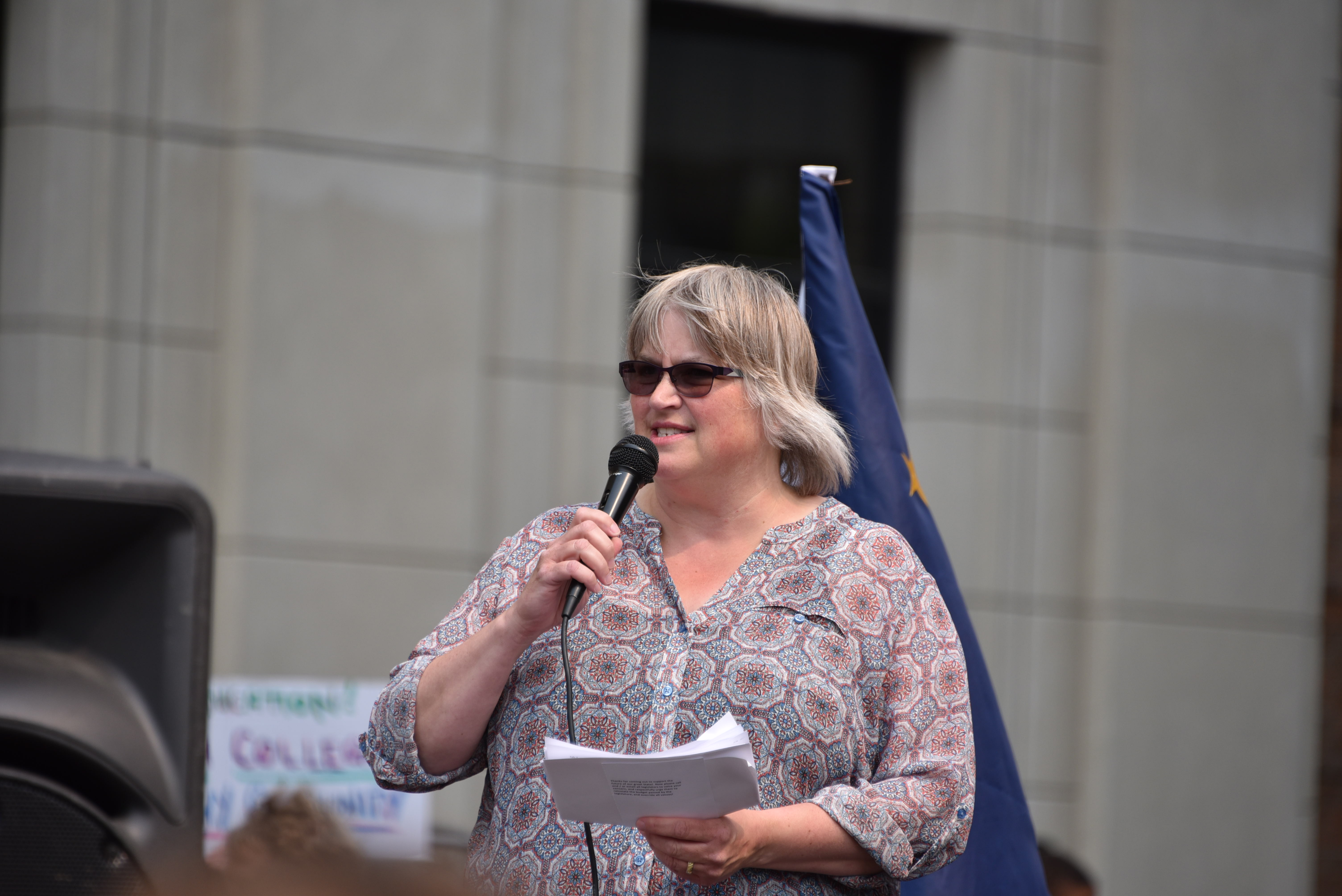 Juneau Rally for Overrides: Save Our State! - Juneau Mayor Beth Weldon